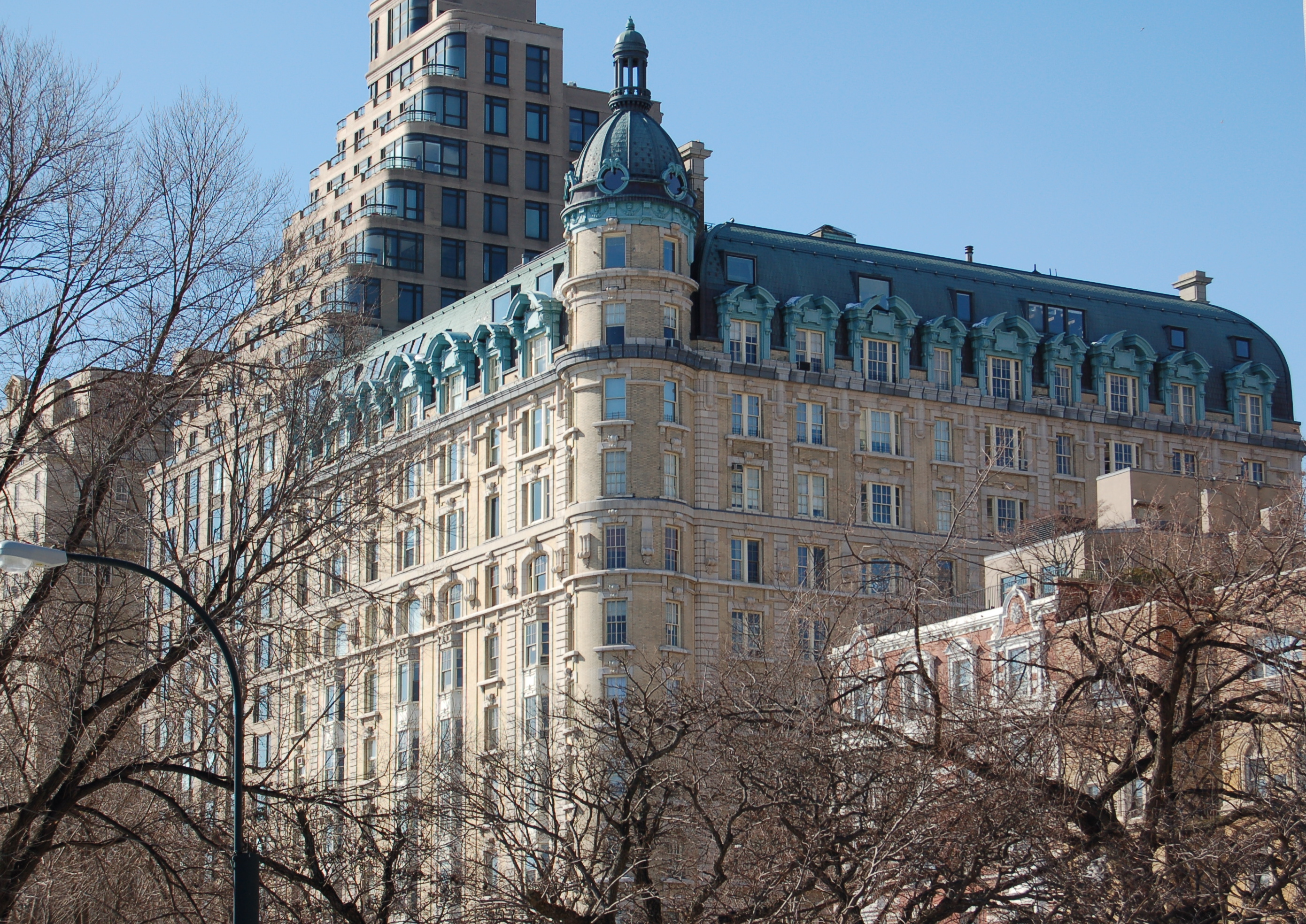 St. Urban Apartment building, Central Park West at 89th Street. Photographed from Central Park.